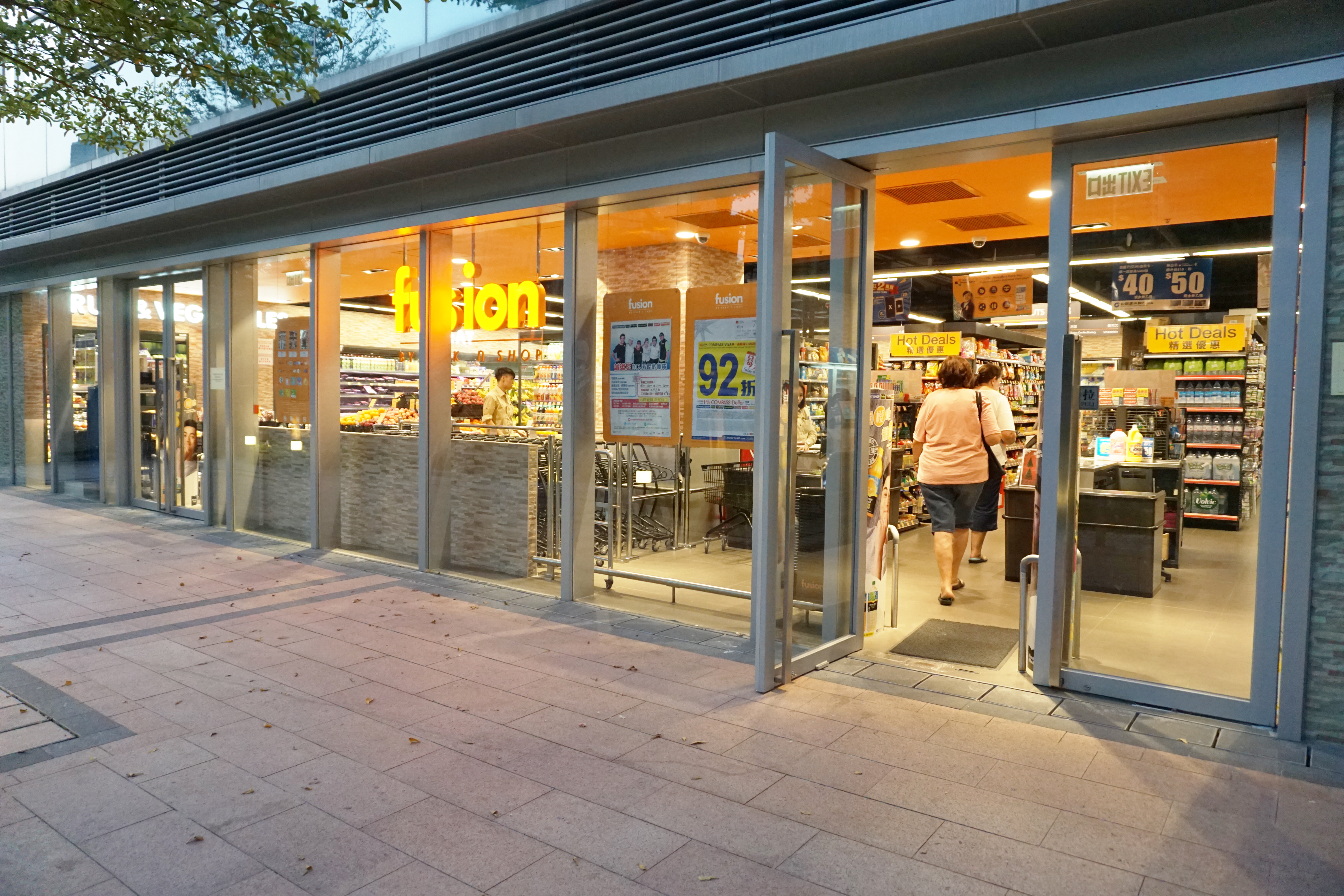 Century Link in Tung Chung, Hong Kong.